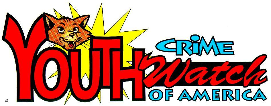 The logo, including Casey, for the YCW of America